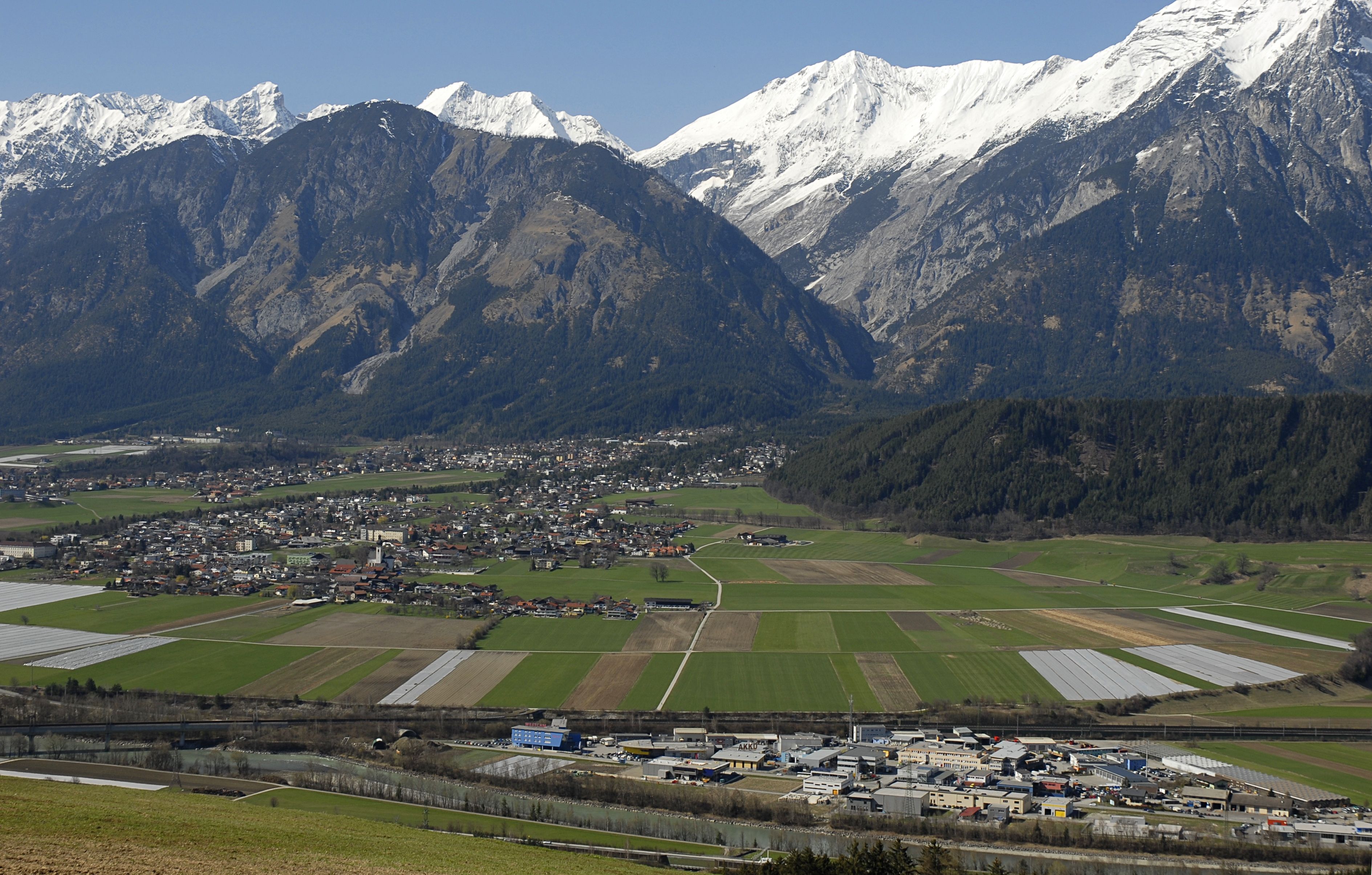 Mils with the Halltal, Karwendel, seen from Kleinvolderberg. Also visible the alluvial fan with his origin at the end of the Halltal